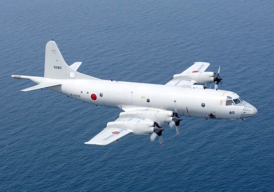 JMSDF Kawasaki P-3